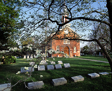 Haymarket St. Pauls Church